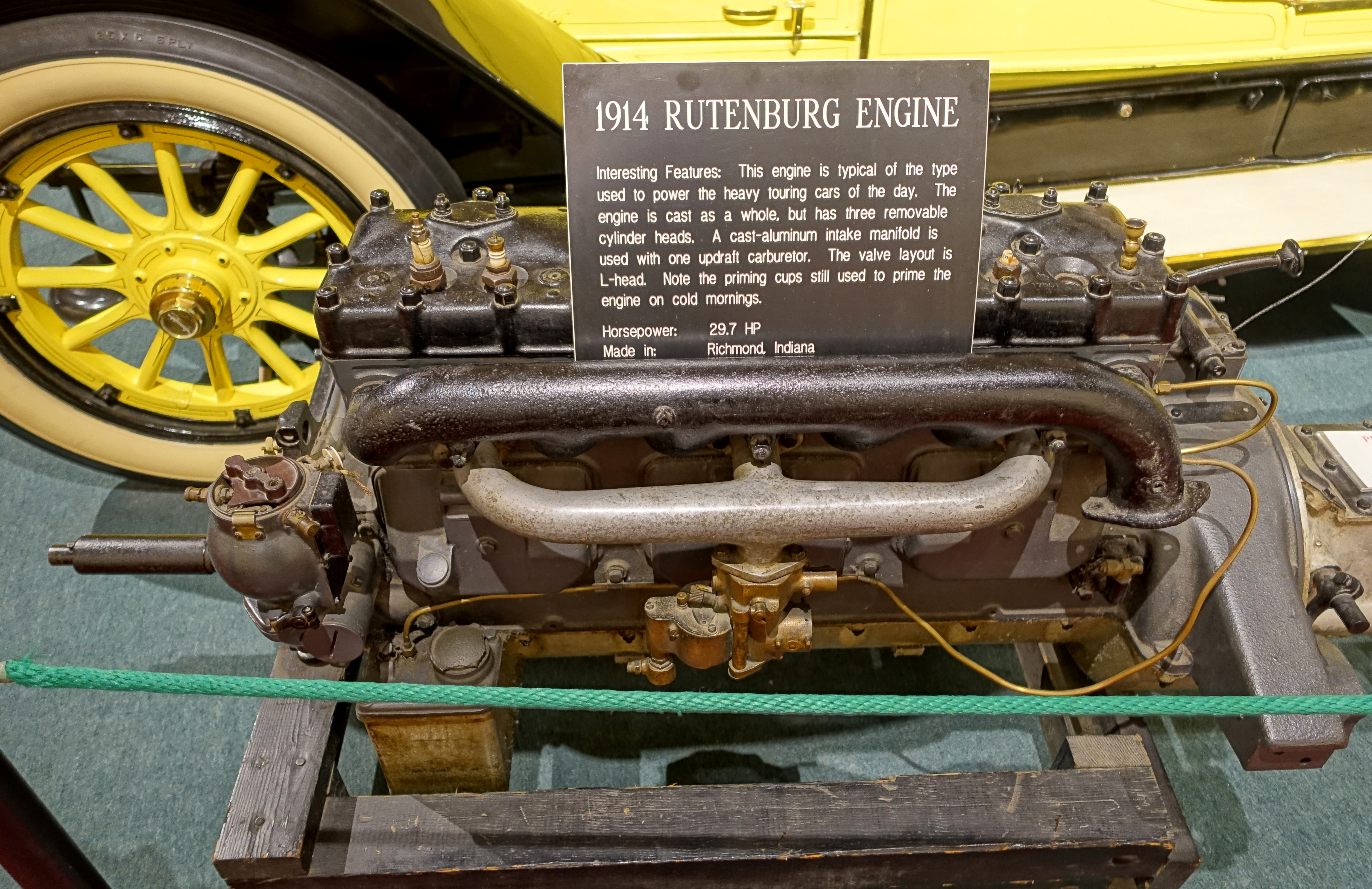 Exhibit in the in the Luray Caverns Car and Carriage Museum, Lurary, Virginia, USA.